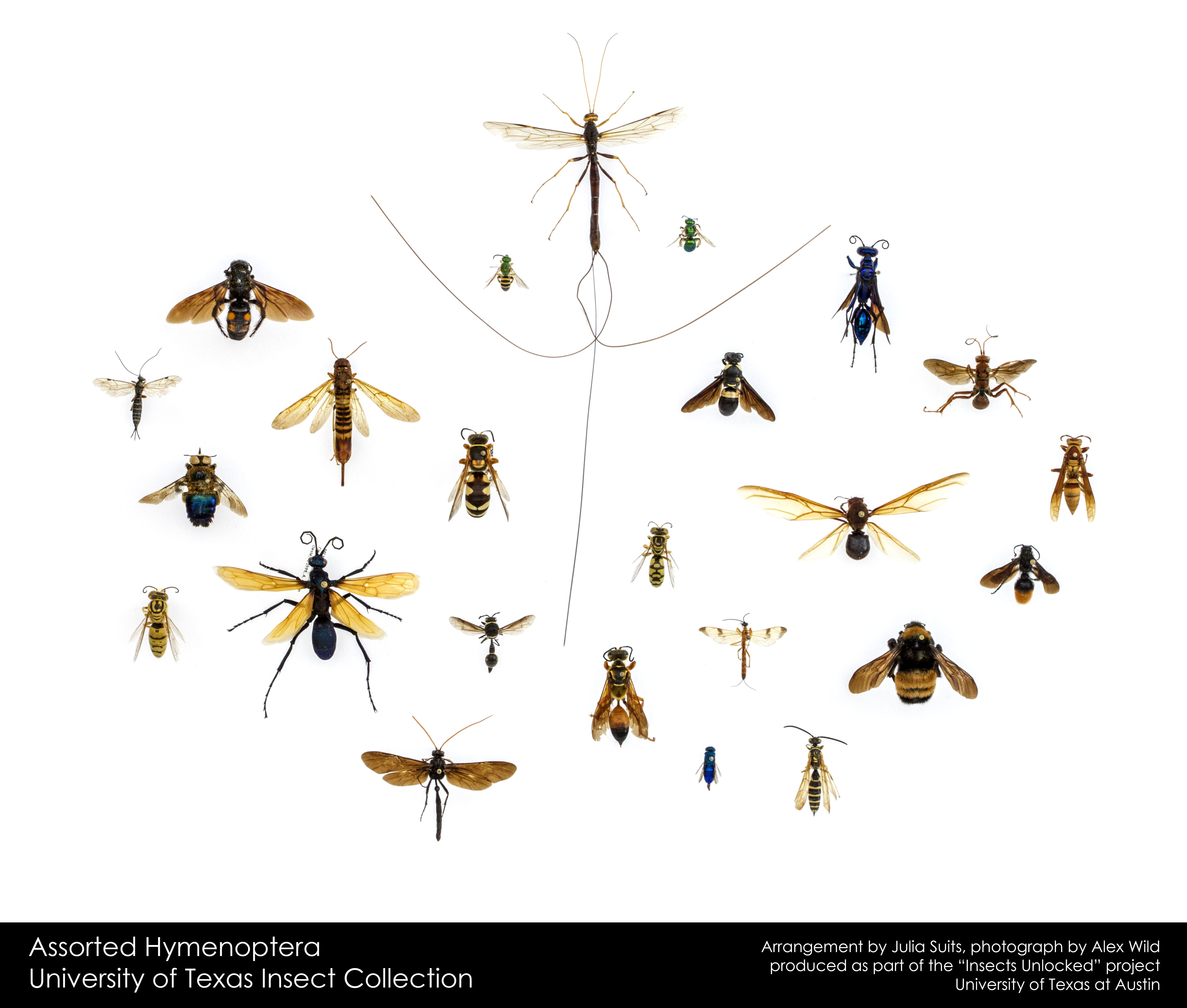 Assorted Hymenoptera. Arranged by Julia Suits, photographed by Alex Wild; Produced as part of the Insects Unlocked Project at The University of Texas at Austin. This image was created as part of the Insects Unlocked project at the University of Texas at Austin. Based in the UT insect collection at Brackenridge Field Laboratory, part of the Department of Integrative Biology. Do not crop: This image is used on one or more sister projects (where its entire contents are wanted), or has archival significance. If you crop it, please save the new image separately, and do not overwrite this